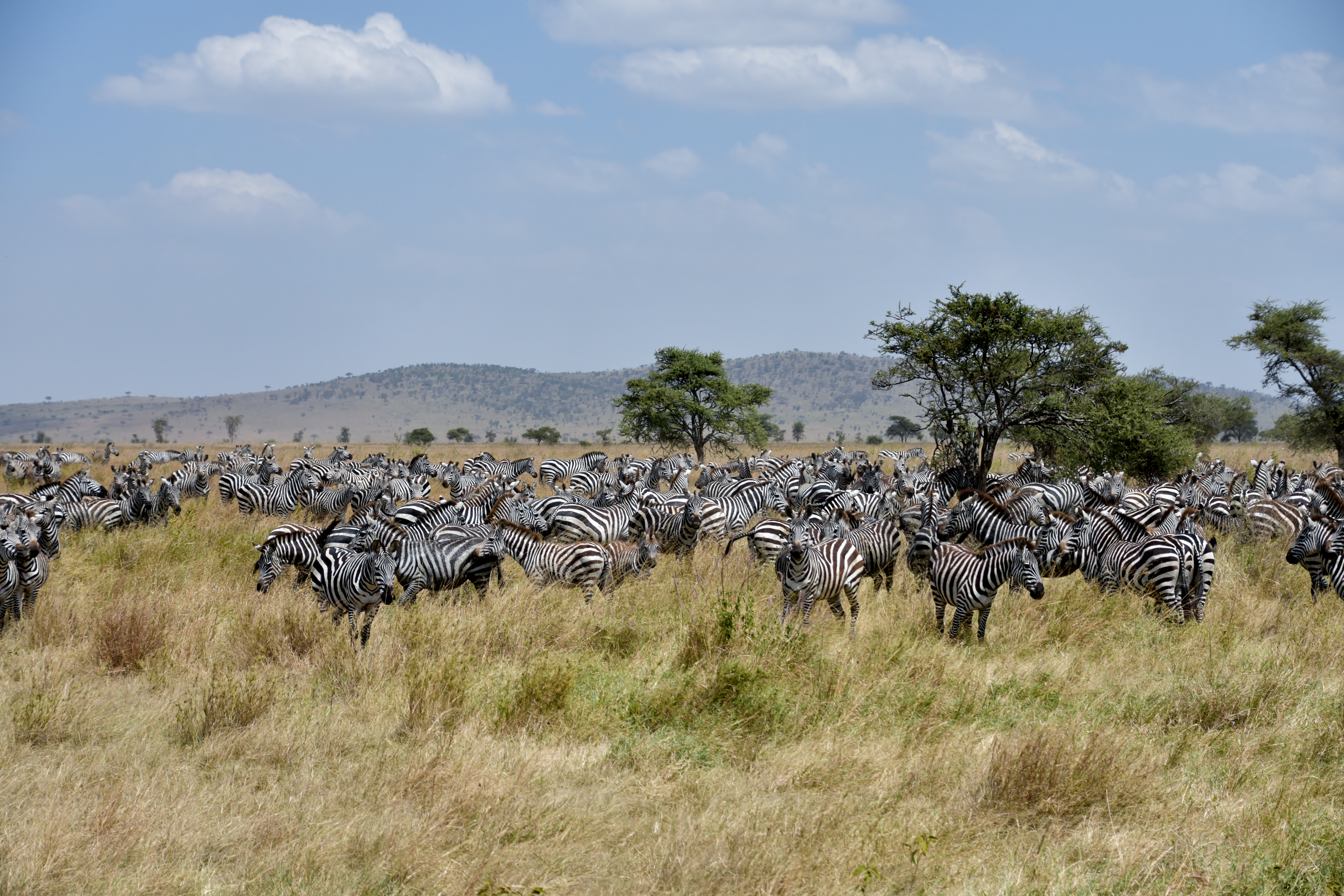 Great Migration in progress, the northern Serengeti (1)